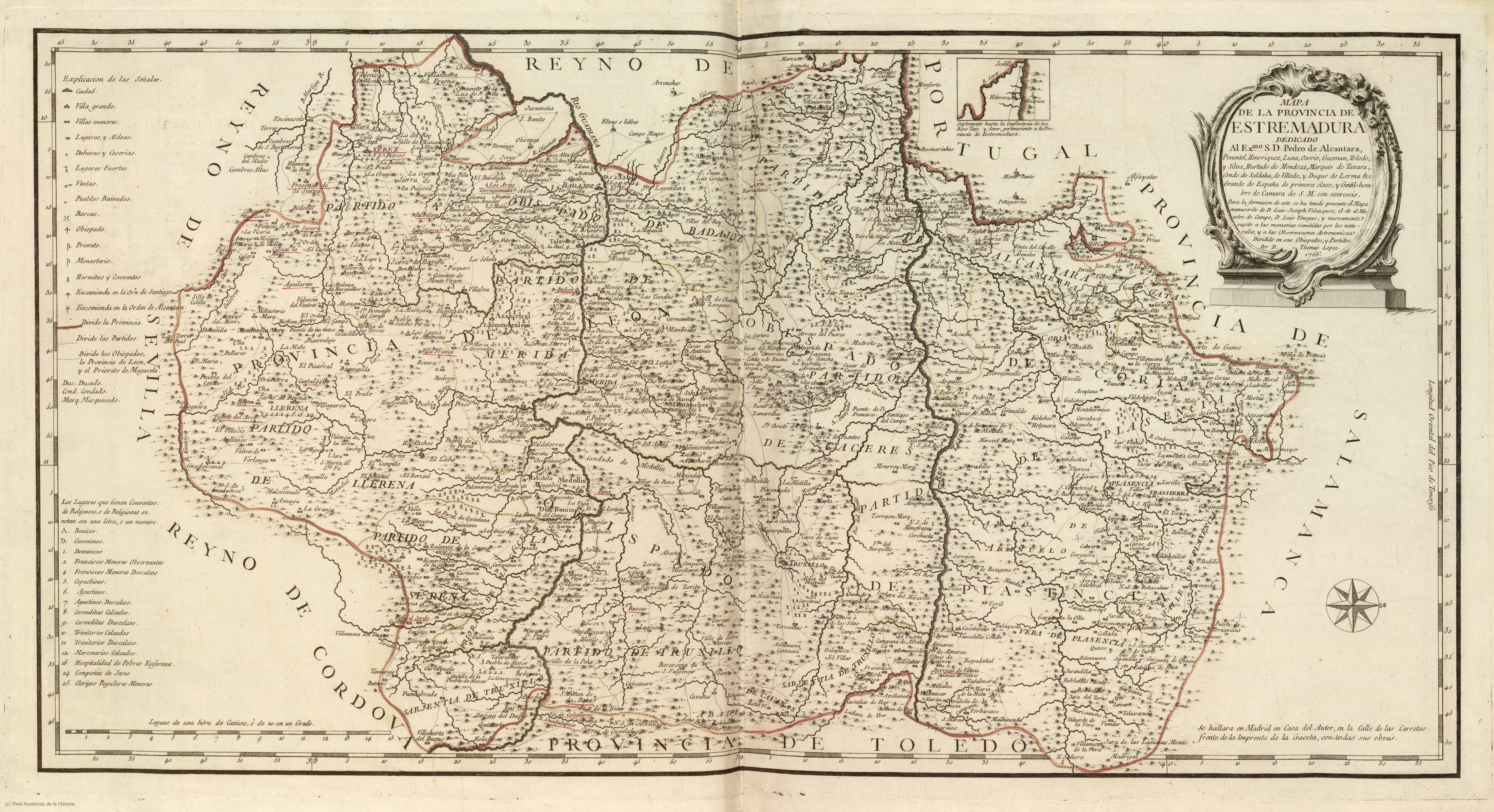 Map of the "province of Estremadura", by Tomás López, dedidated to Pedro de Alcántara Pimentel. Oriented with West above (North to the right). Published in 1766.